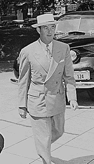 Robert E. Hannegan, United States Postmaster General and Chairman of the DNC